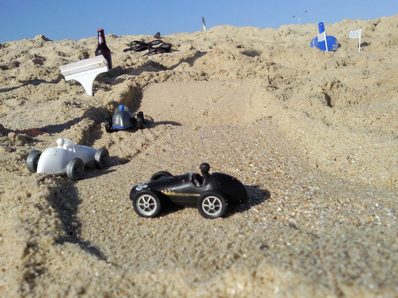 Neppis toy car racing course built in sand